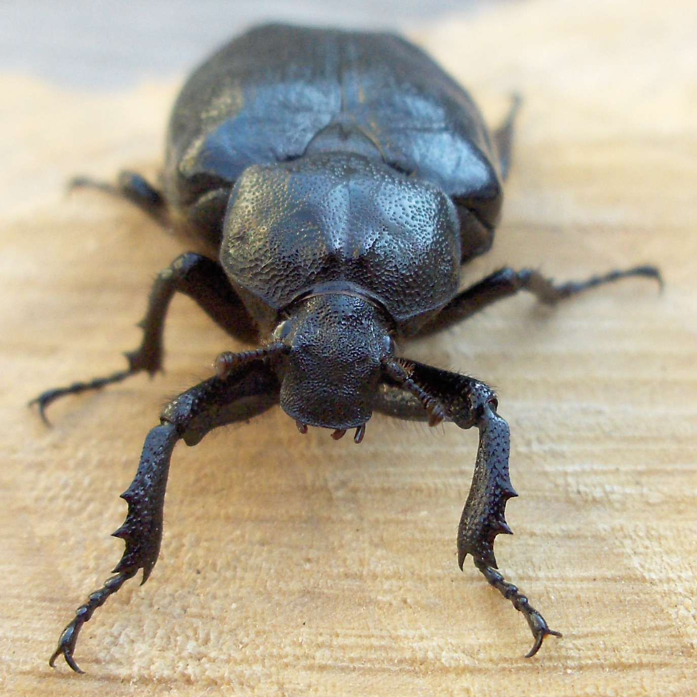 Hermit beetle Osmoderma eremita female. More microstructure, but less bumps than the male.